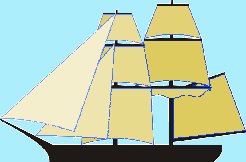 Altered image of sailing ship (Brig) by Gwillhickers (changed color of sails, background